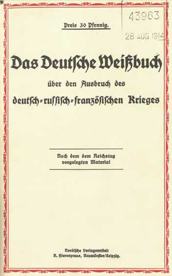 cover page of the German White Book, a publication by the German government of 1914 documenting their claims for the causes of World War I. Numbered 43963 and stamped 28 Aug 1914. “Das Deutsche Weißbuch über den Ausbruch des deutsch-russisch-französischen Krieges” (translation: The German White Book about the outbreak of the German-Russian-French war)